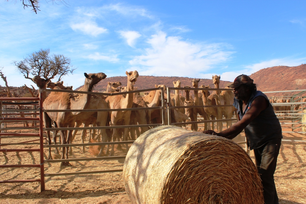 An Indigenous stockman at a feral camel muster on the APY Lands of South Australia.